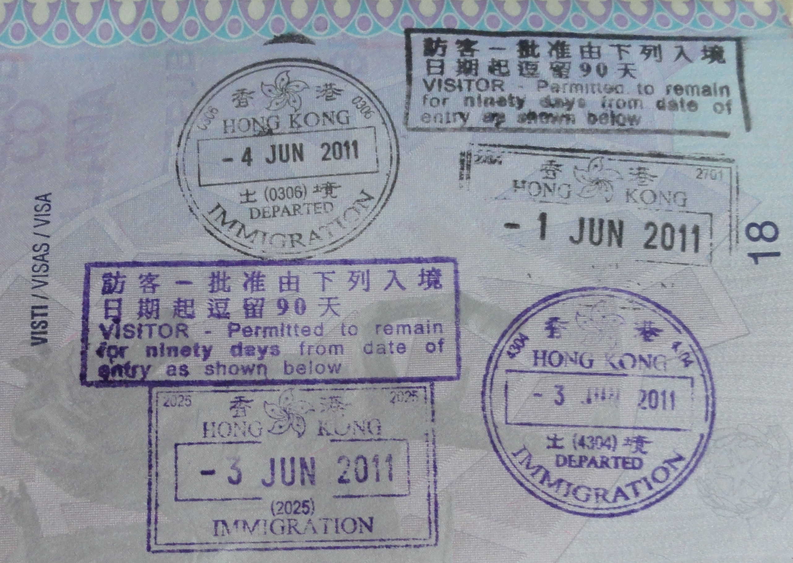 Hong Kong SAR passport stamps